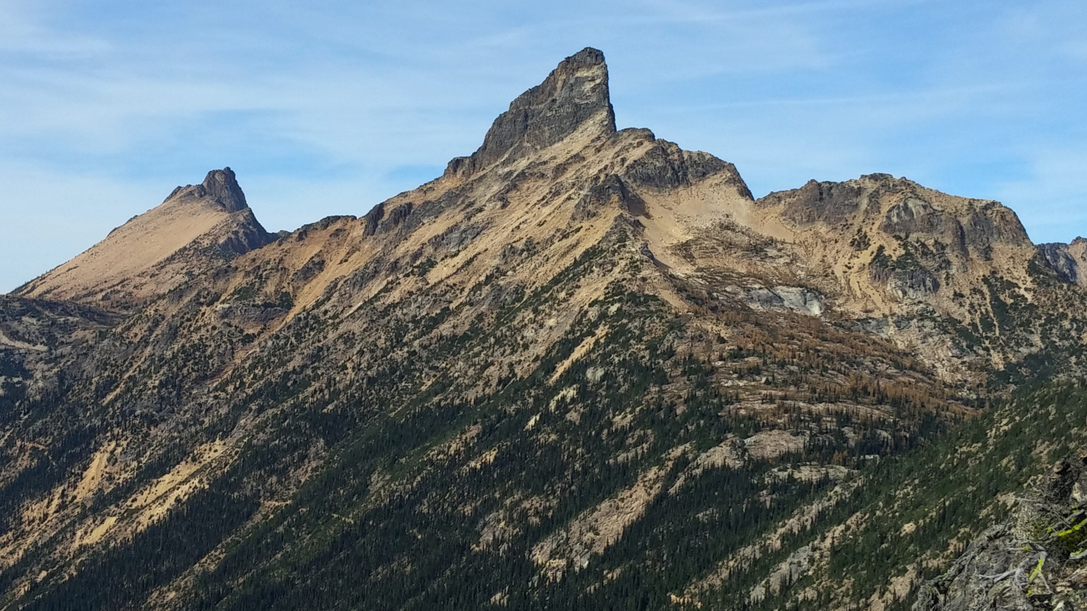 Tower Mountain and Golden Horn seen from Pacific Crest Trail